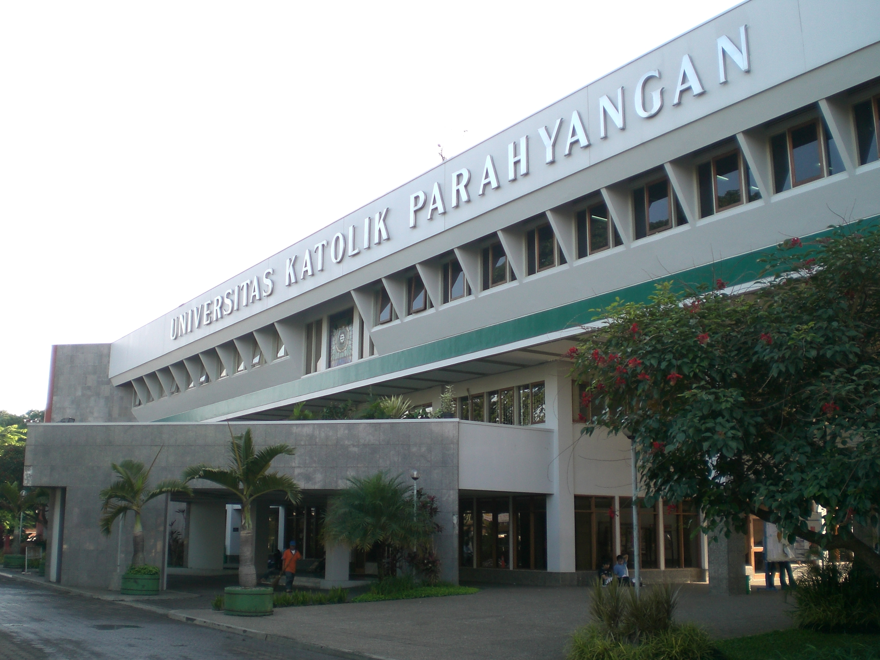 Rectorate Building of Parahyangan Catholic University